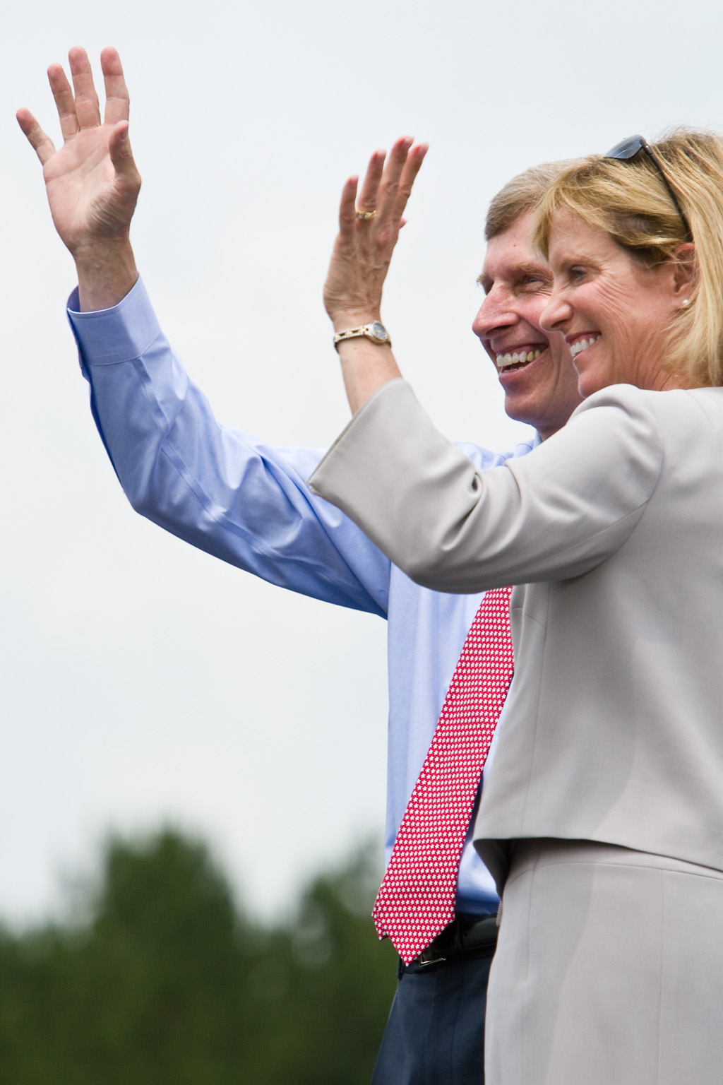 Unity, NH